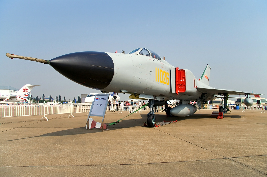 PLAAF Shenyang J-8F